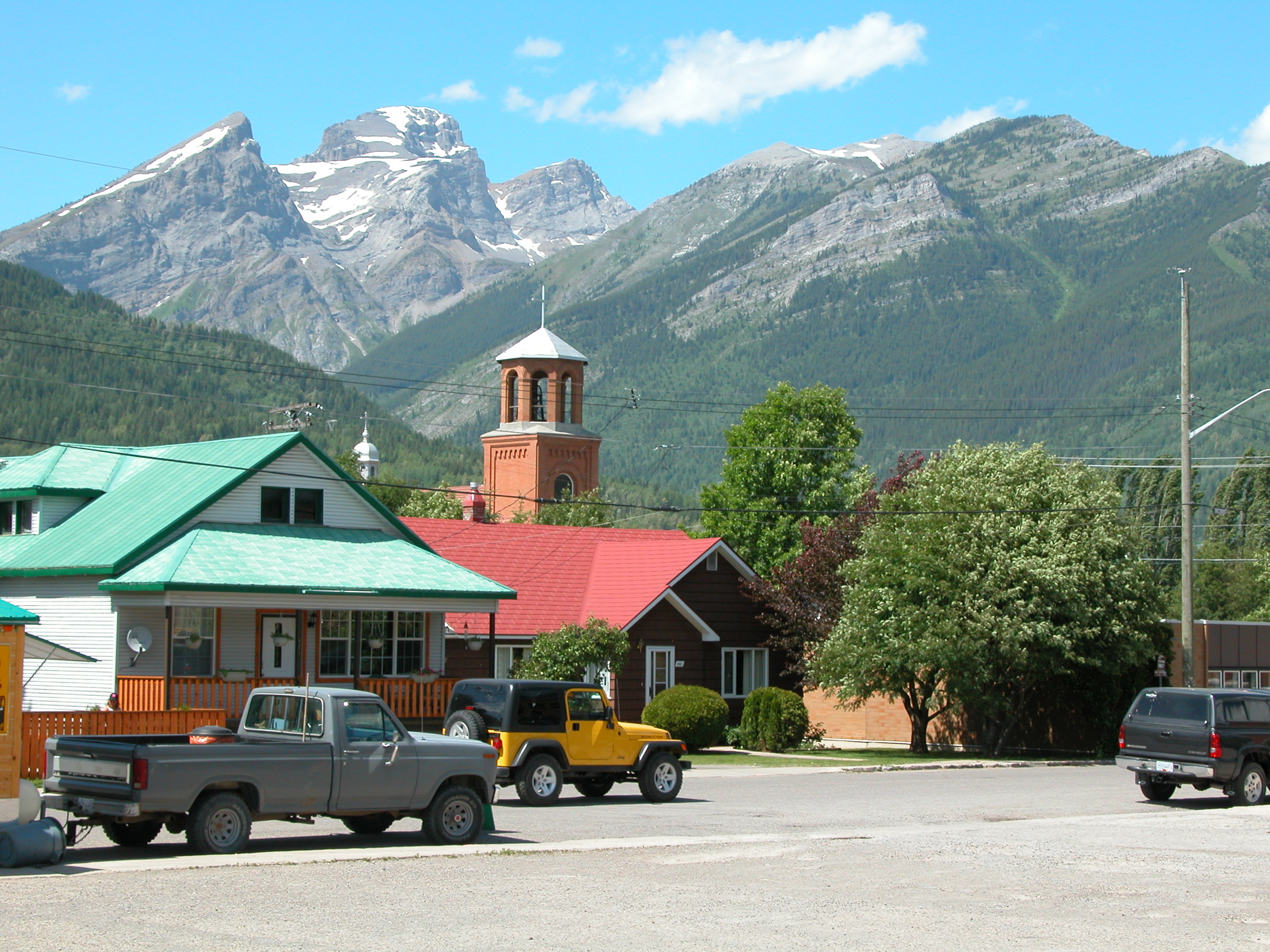 Downtown Fernie, British Columbia with Three Sisters and Mt. Proctor in the background.